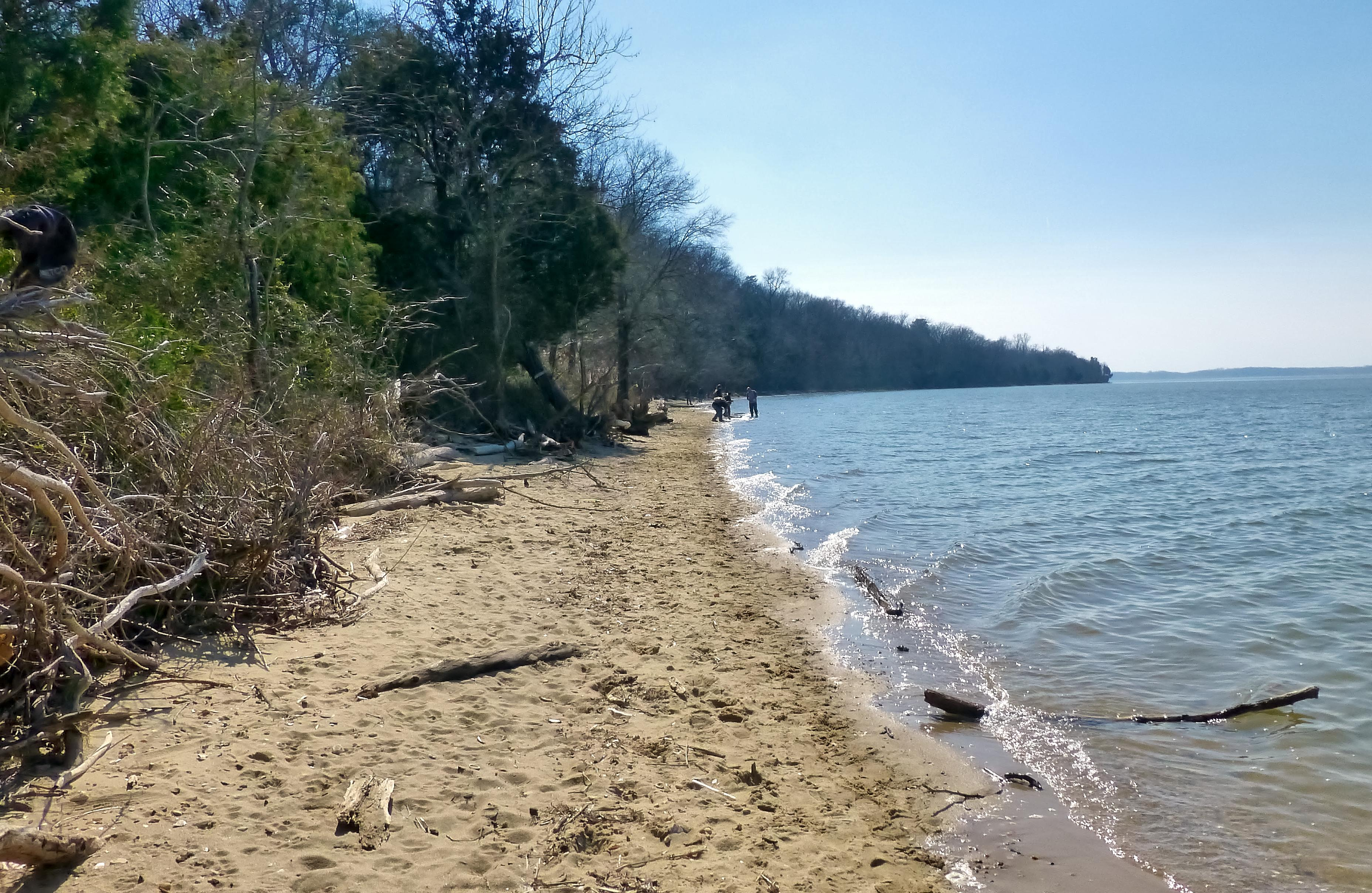 Purse State Park Feb 20, 2017, 12-018_edit